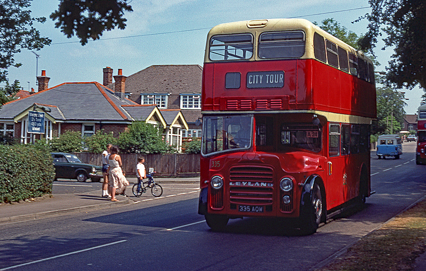 Southampton Transport Corporation 335 Leyland Titan PD2 (335 AOW) in Bitterne. Scanned from a Kodachrome 35mm slide.